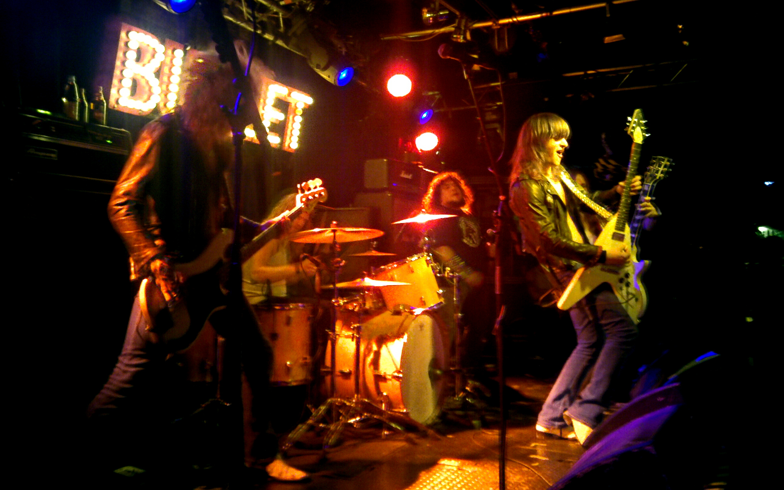 Bullet On The Rocks (Helsinki) 11 Feb 2011